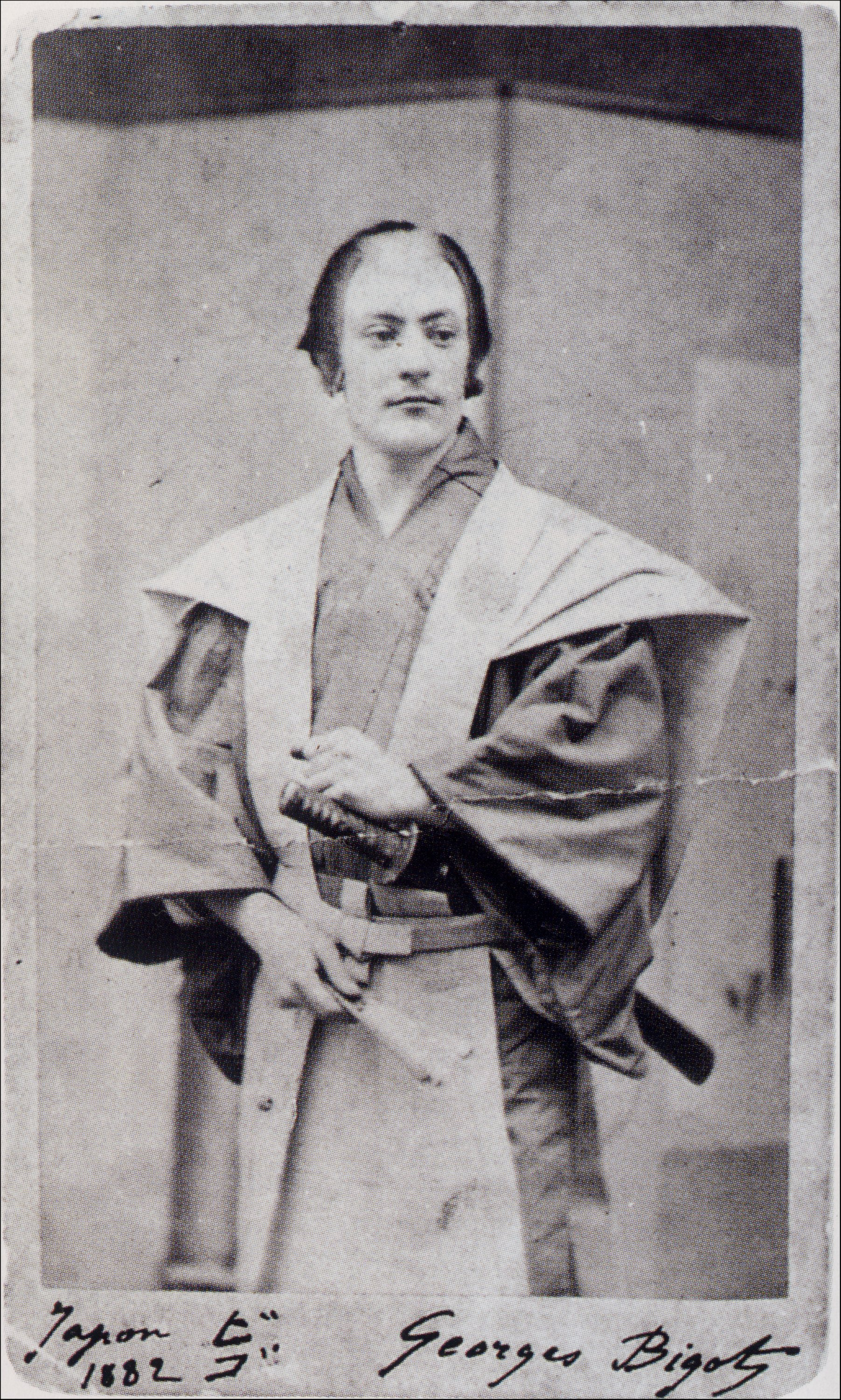 Georges Ferdinand Bigotin Yokohama,Japan.(7th April.1882)